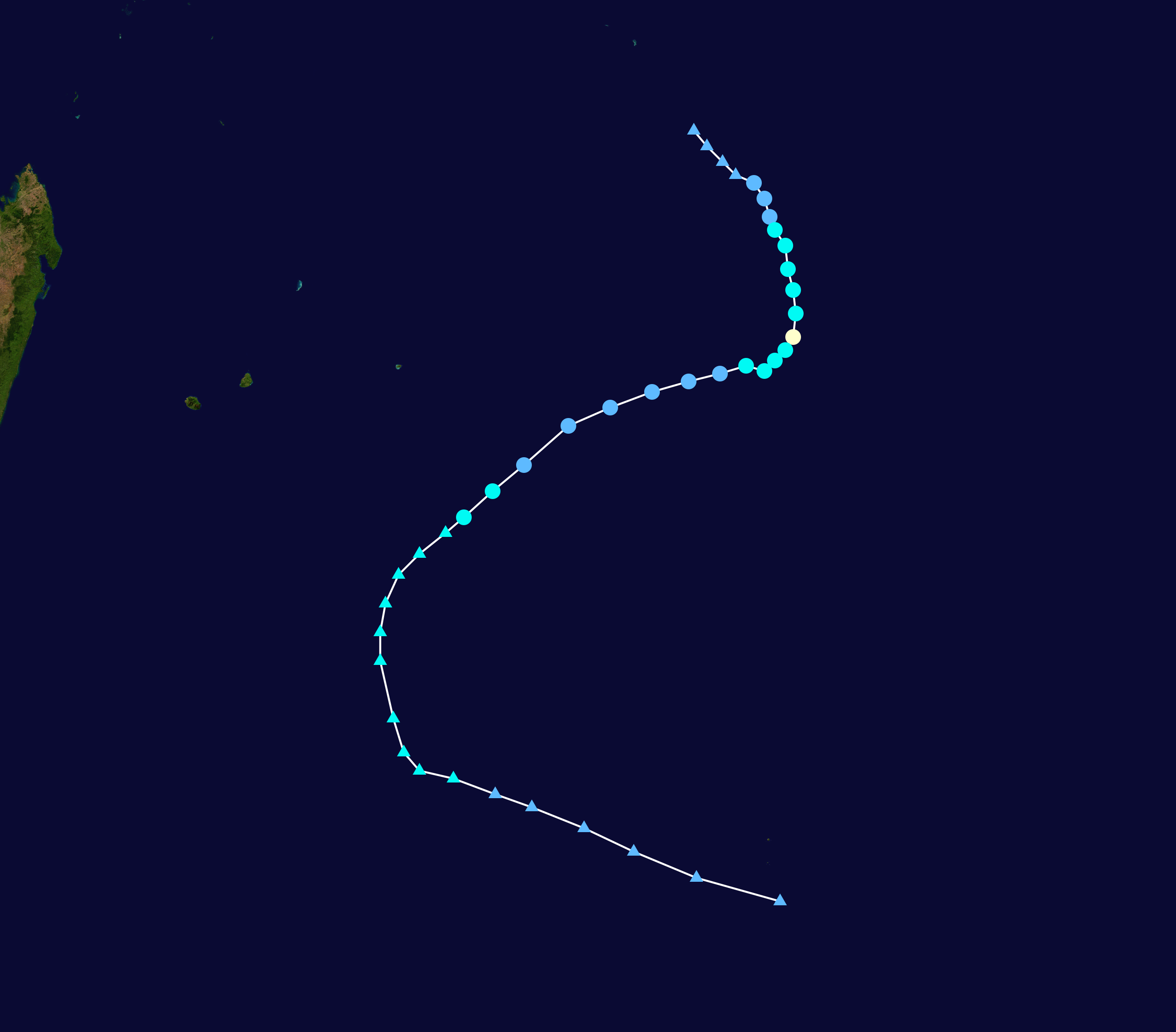 Track map of Severe Tropical Storm Hina of the 2008-09 South West Indian Ocean cyclone season. The points show the location of the storm at 6-hour intervals. The colour represents the storm's maximum sustained wind speeds as classified in the Saffir–Simpson scale (see below), and the shape of the data points represent the nature of the storm, according to the legend below. Saffir–Simpson scale Tropical depression≤38 mph≤62 km/h Category 3111–129 mph178–208 km/h Tropical storm39–73 mph63–118 km/h Category 4130–156 mph209–251 km/h Category 174–95 mph119–153 km/h Category 5≥157 mph≥252 km/h Category 296–110 mph154–177 km/h Unknown Storm type Tropical cyclone Subtropical cyclone Extratropical cyclone / Remnant low / Tropical disturbance / Monsoon depression